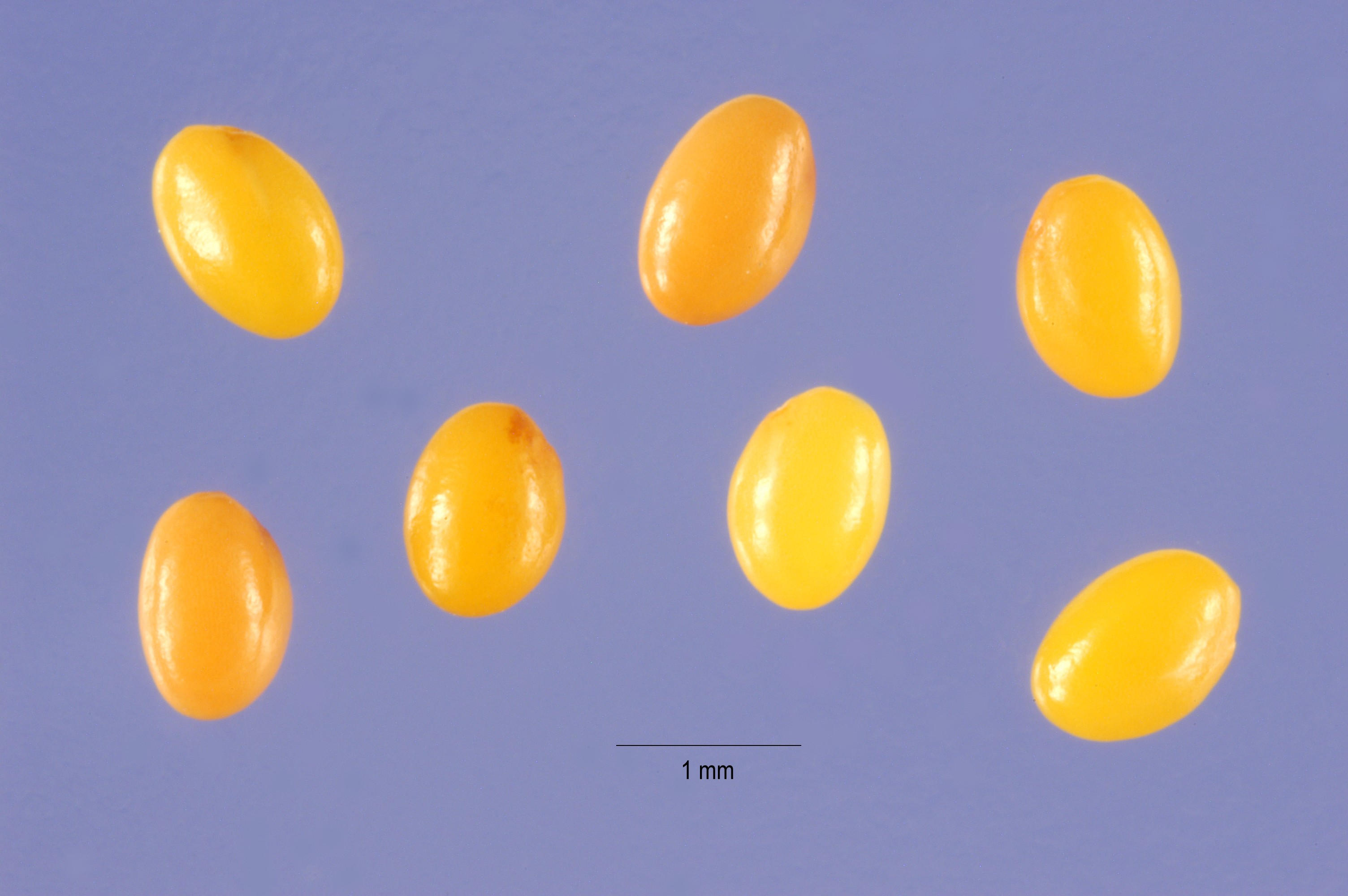 Trifolium campestre seeds